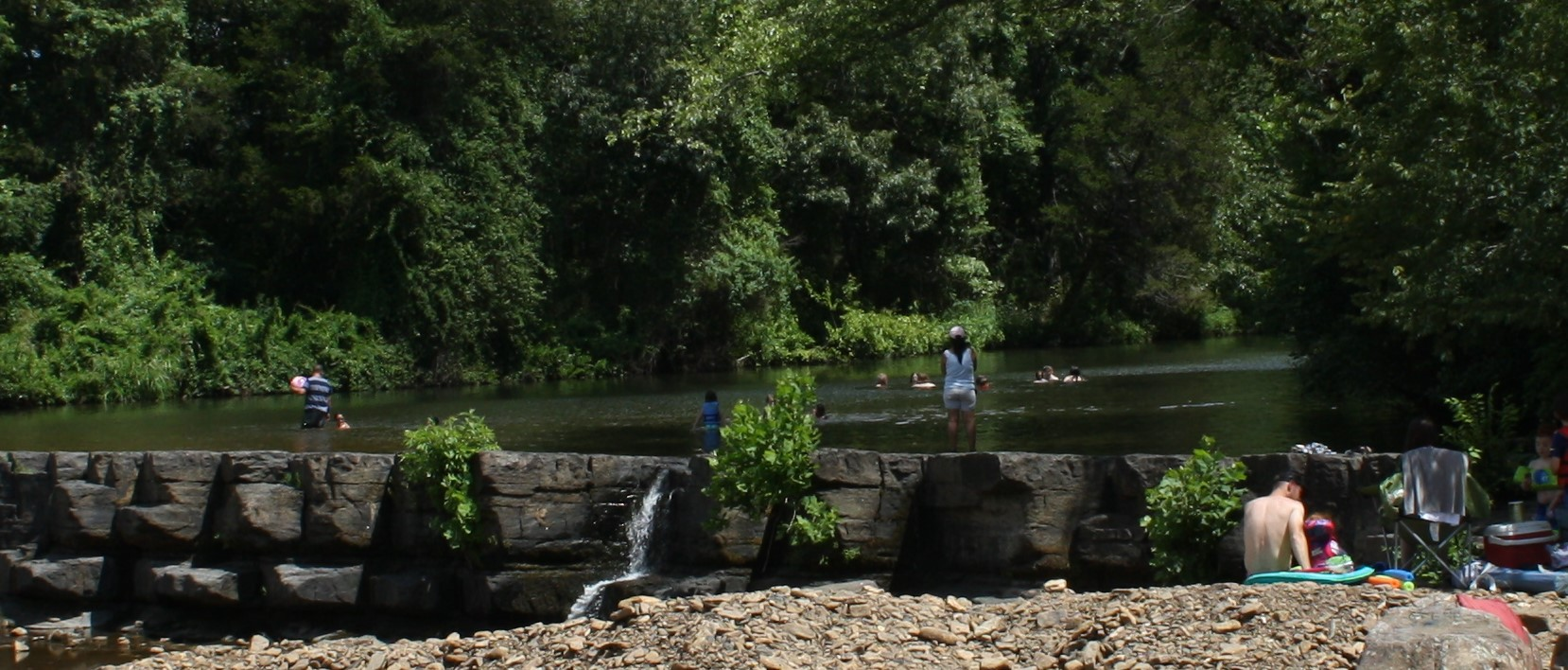 Visitors and picnickers enjoy the dammed Lee Creek at Natural Dam, Arkansas on Independence Day